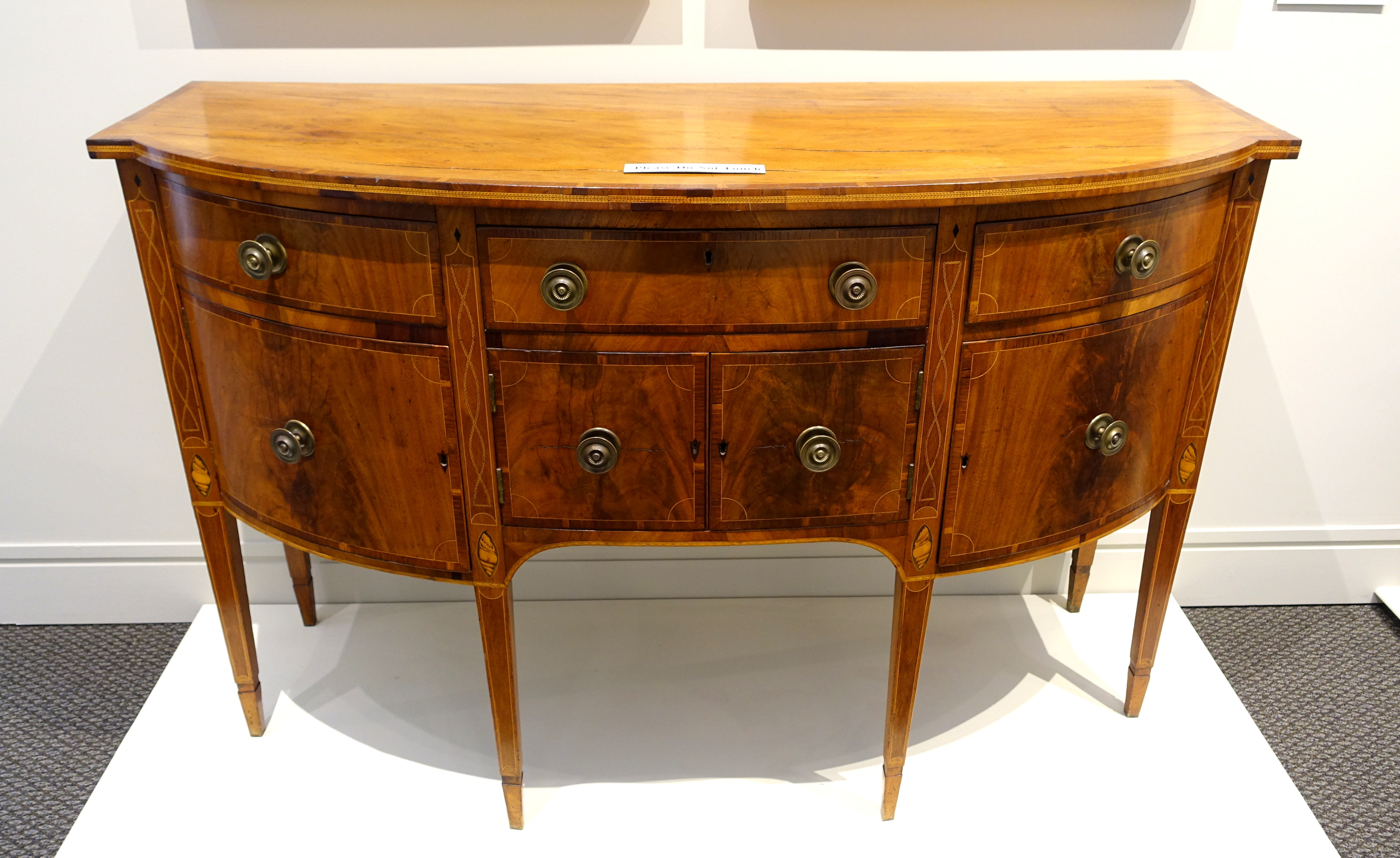 Exhibit in the Bennington Museum - Bennington, Vermont, USA. This work is in the public domain because the artist died more than 70 years ago.